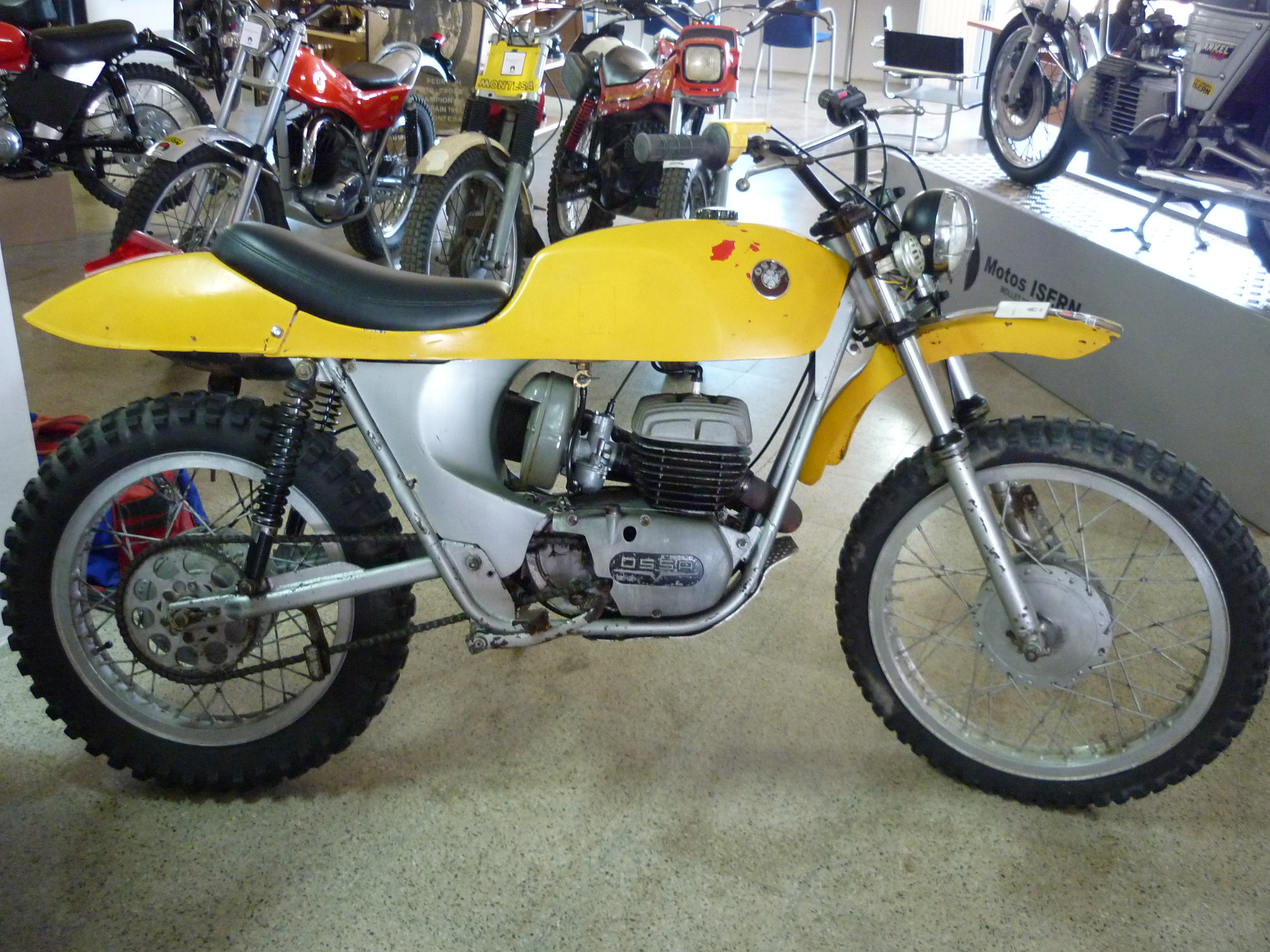 OSSA Enduro from around 1970. Made between 1967 and 1969 under the name 230 Enduro.Isern Motorcycle Museum, Mollet del Vallès (Catalonia).